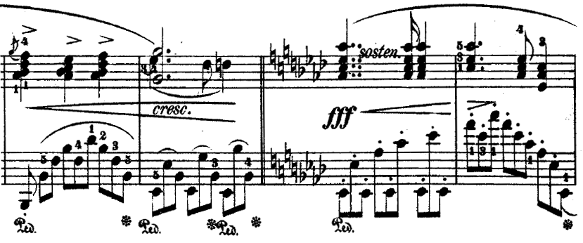 Modulation to Ab major of Chopin's Nocturne Op 27, No 1